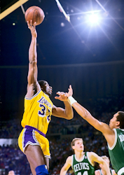 Los Angeles Lakers Magic Johnson and Boston Celtics Dennis Johnson 1987 NBA Finals